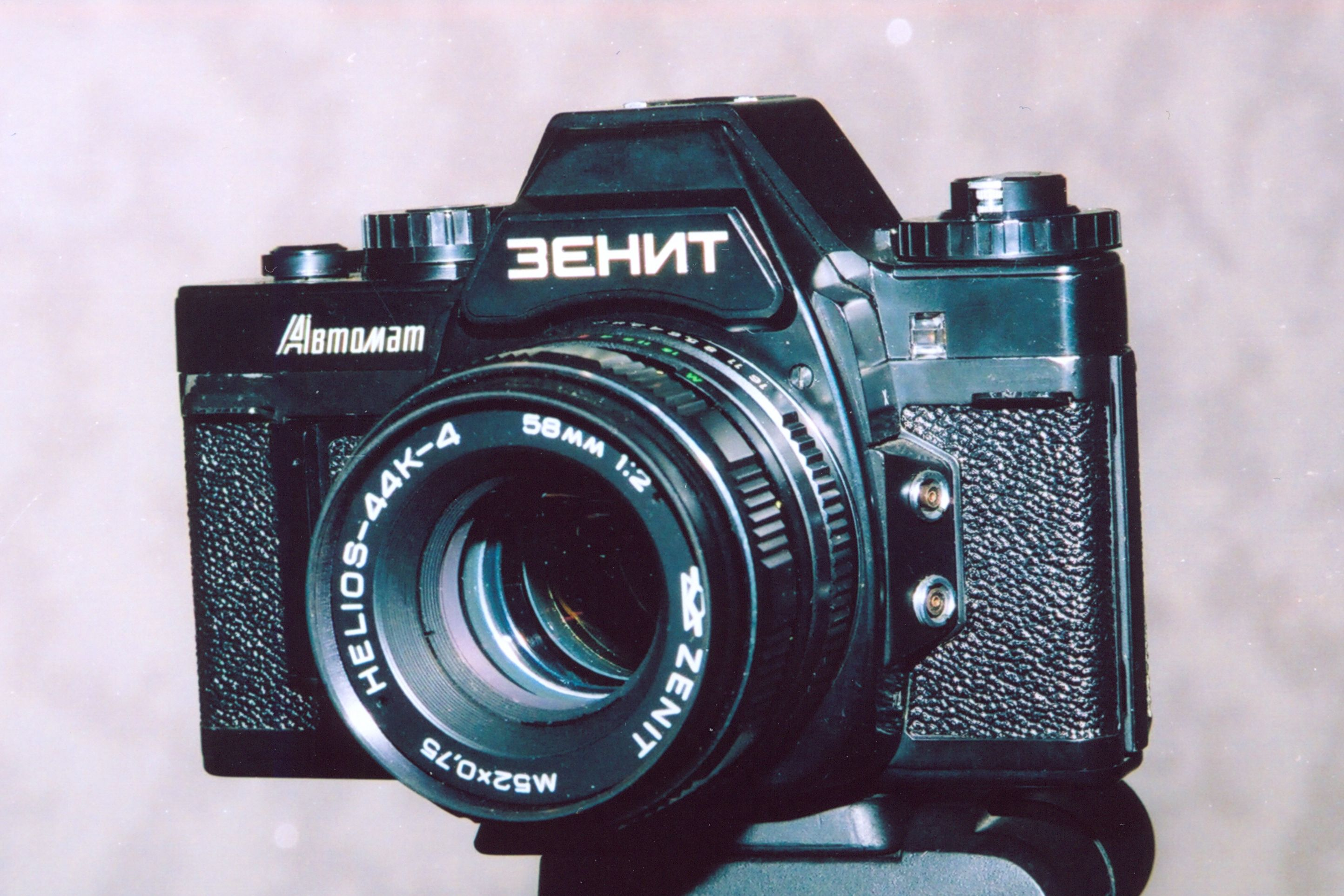 Zenit avtomat